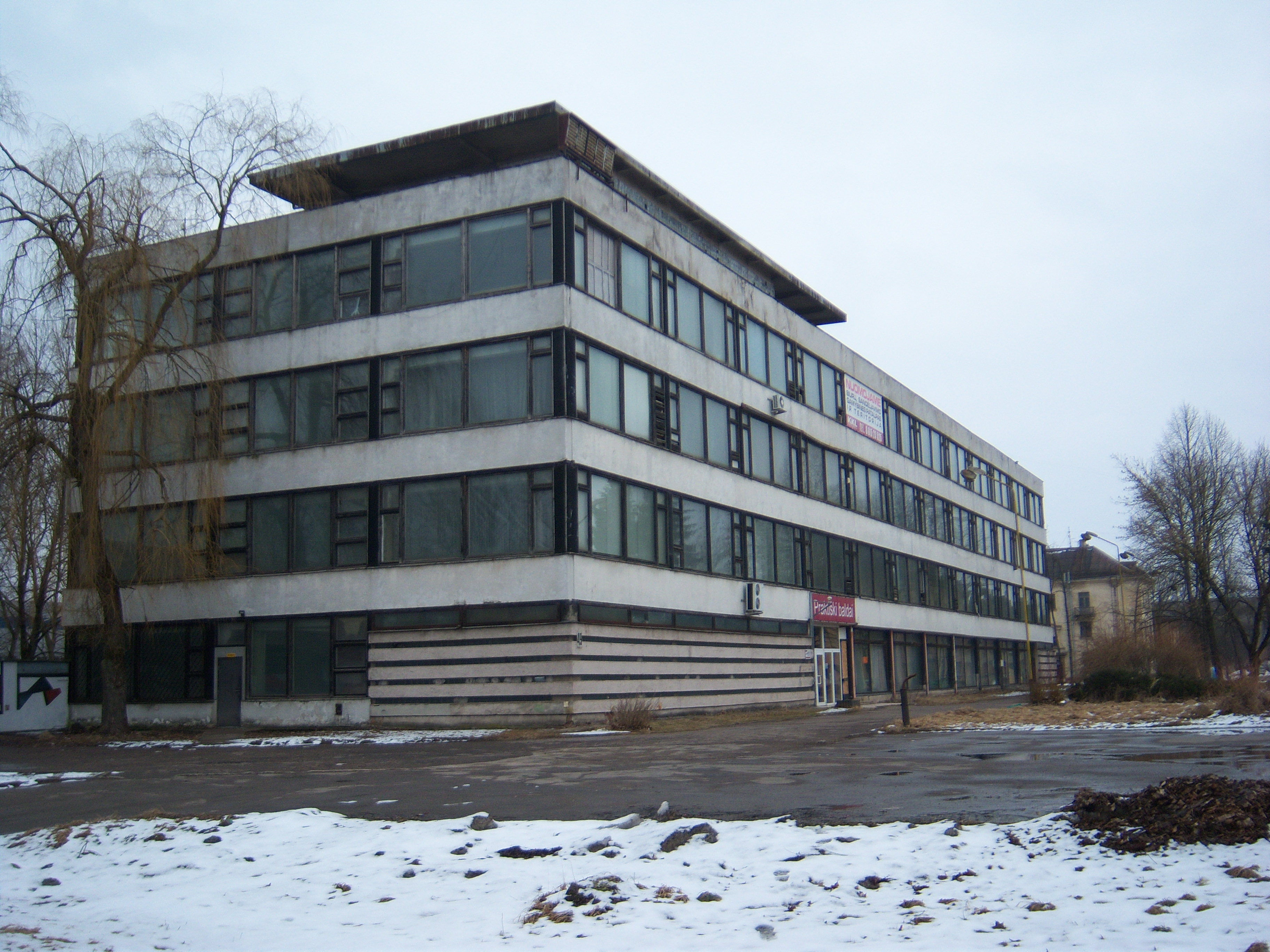 Office building of the bankrupt company Kauno ketaus liejykla, R. Kalantos street 49, Kaunas, Lithuania